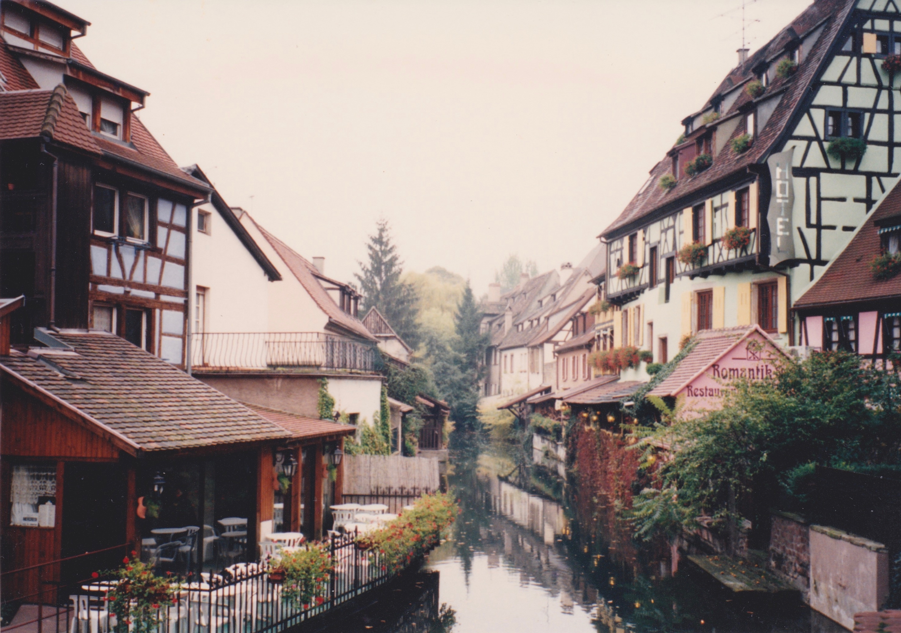 Colmar, Alsace "Little Venice" district.